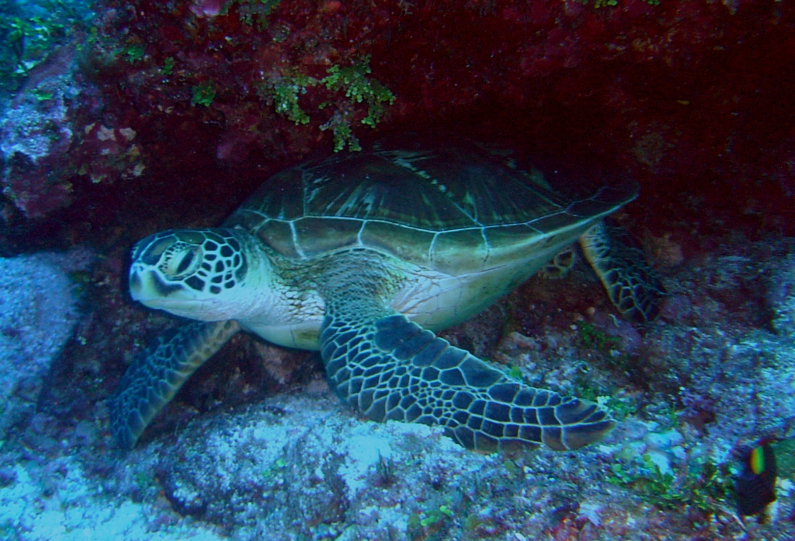 Green sea turtle. Saipan.